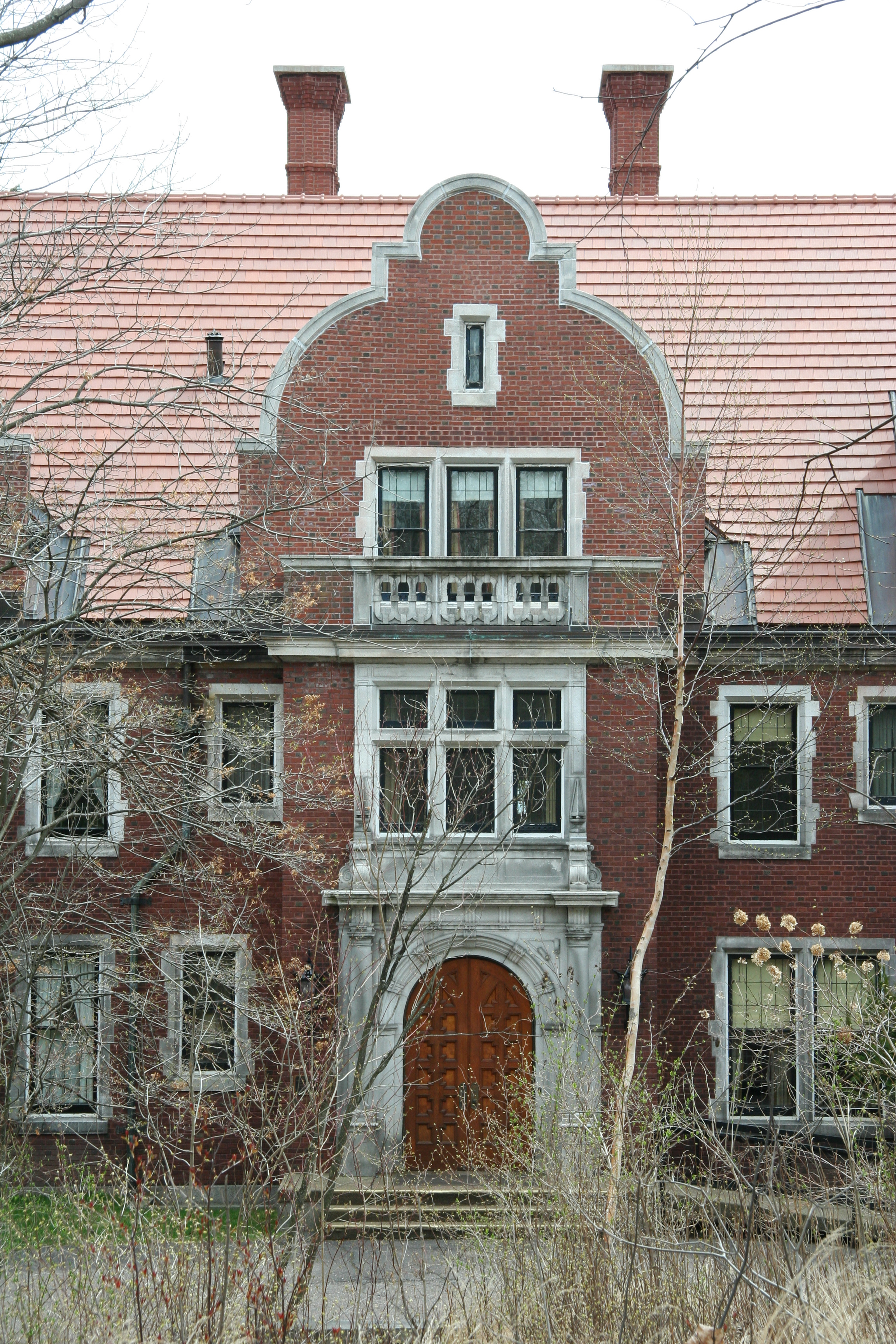 A glimpse of the front door of the Glensheen Mansion, seen through the fence on Highway 61 in Duluth, Minnesota